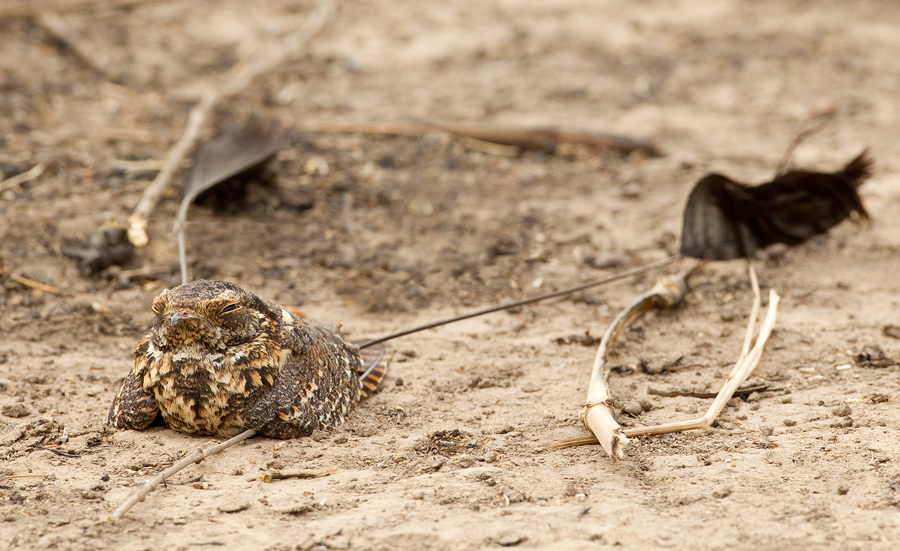 Standard-winged Nightjar, taken in the Gambia